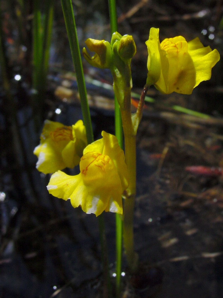 Utricularia macrorhiza flowering in situ near Wright's Lake, California.